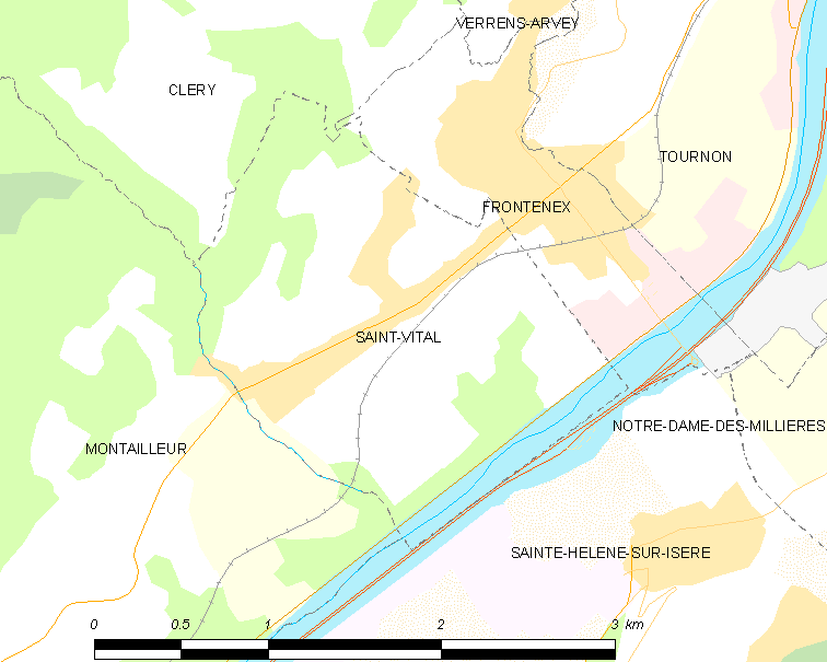 Map of French municipality Saint-Vital